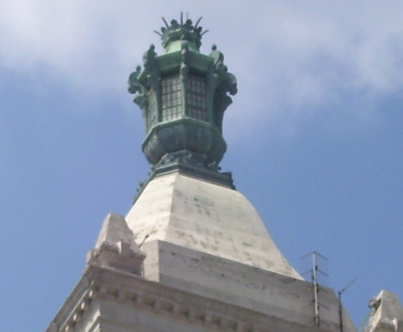 The "Tower of Light" atop the tower of the Consolidated Edison Company Building (originally the Consolidated Gas Company Building) at 4 Irving Place at East 14th Street in Manhattan, New York City, as seen from Third Avenue below 14th Street. The building was erected in 1915 (architect: Henry J. Hardenbergh) on the site of the Academy of Music, New York's third opera house. (The name then went to a movie house across the street, which later became The Palladium, and then was torn down for a New York University dormitory.) The tower was added in 1926 (architect: Warren & Wetmore). The "Tower of Light" is designed to look like a miniature temple, topped by a bronze urn which lights up at night.